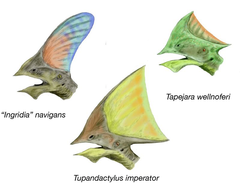 Pencil drawing of the heads of the 3 species that have historically been assigned to the genus Tapejara, a pterosaur genus from the Early Cretaceous of Brazil. The crest of T. wellnhoferi is only partially known and its representation here is hypothetical. "Ingridia" navigans and T. imperator have since been reclassified as a species of Tupandactylus.